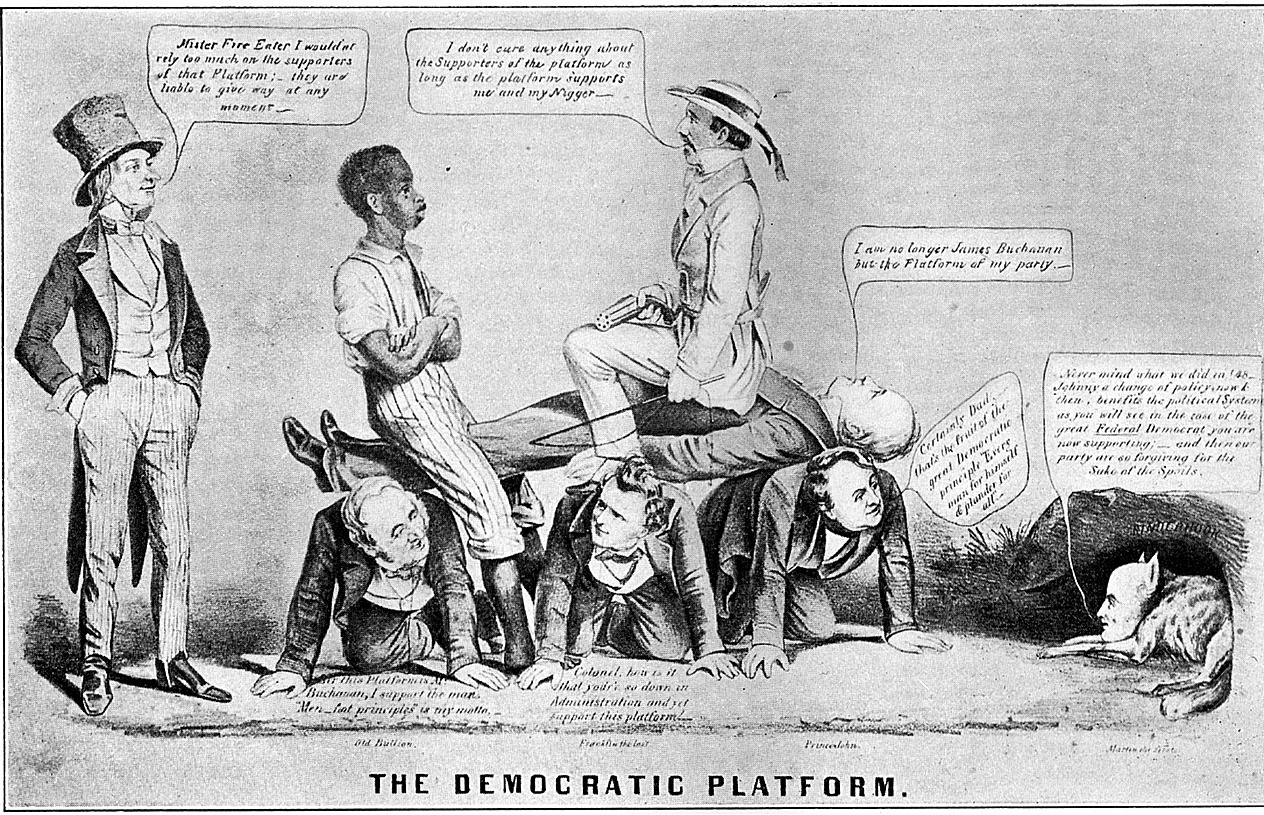 Political cartoon of the 1856 United States presidential election. Satirizes the Democratic Party platform, with James Buchanan as a plank being ridden on by a slaveholder and his slave; the slaveholder (holding a pistol and a whip) says he doesn't care "as long as the platform supports me and my Nigger". Brother Johnathan observes from left; prominent Democrats are below supporting Buchanan. Brother Johnathan "Mister Fire-eater [pro-southern radical], I would not rely too much on the supporters of that Platform; they are liable to give way at any moment."